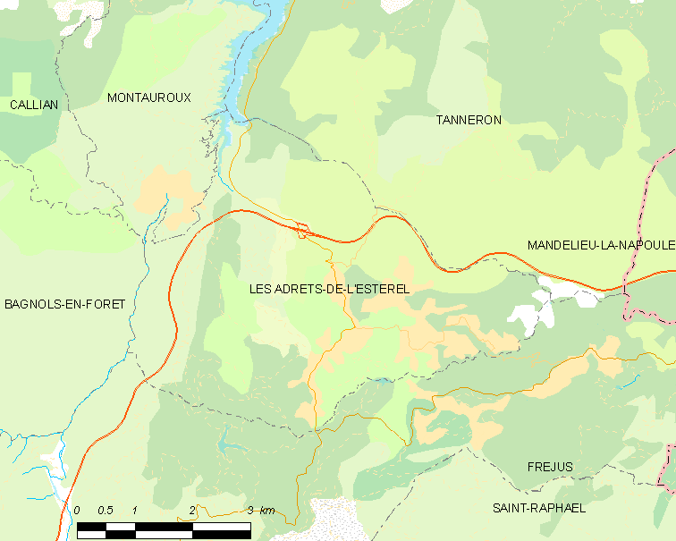 Map of French municipality Les Adrets-de-l'Estérel